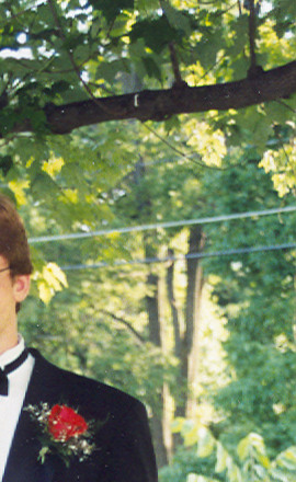 An example picture for Wikipedia:Talk:Gaussian blur. For more information, see Image:Faux-bokeh-final.png.